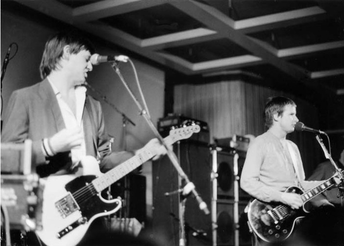 from the fantastic Optimism's Flames